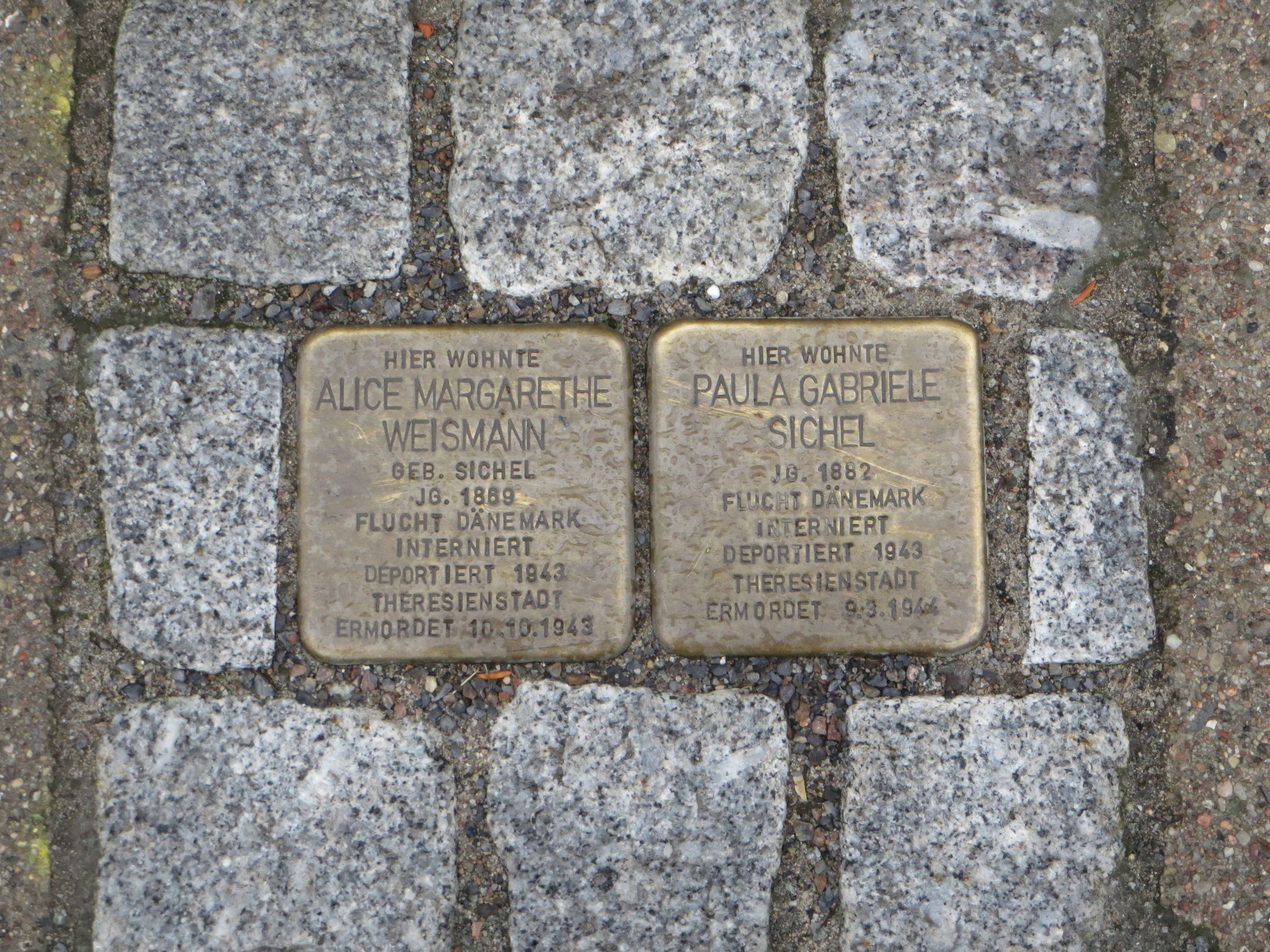 Stolpersteine Robert-Blum-Str. 11, Greifswald